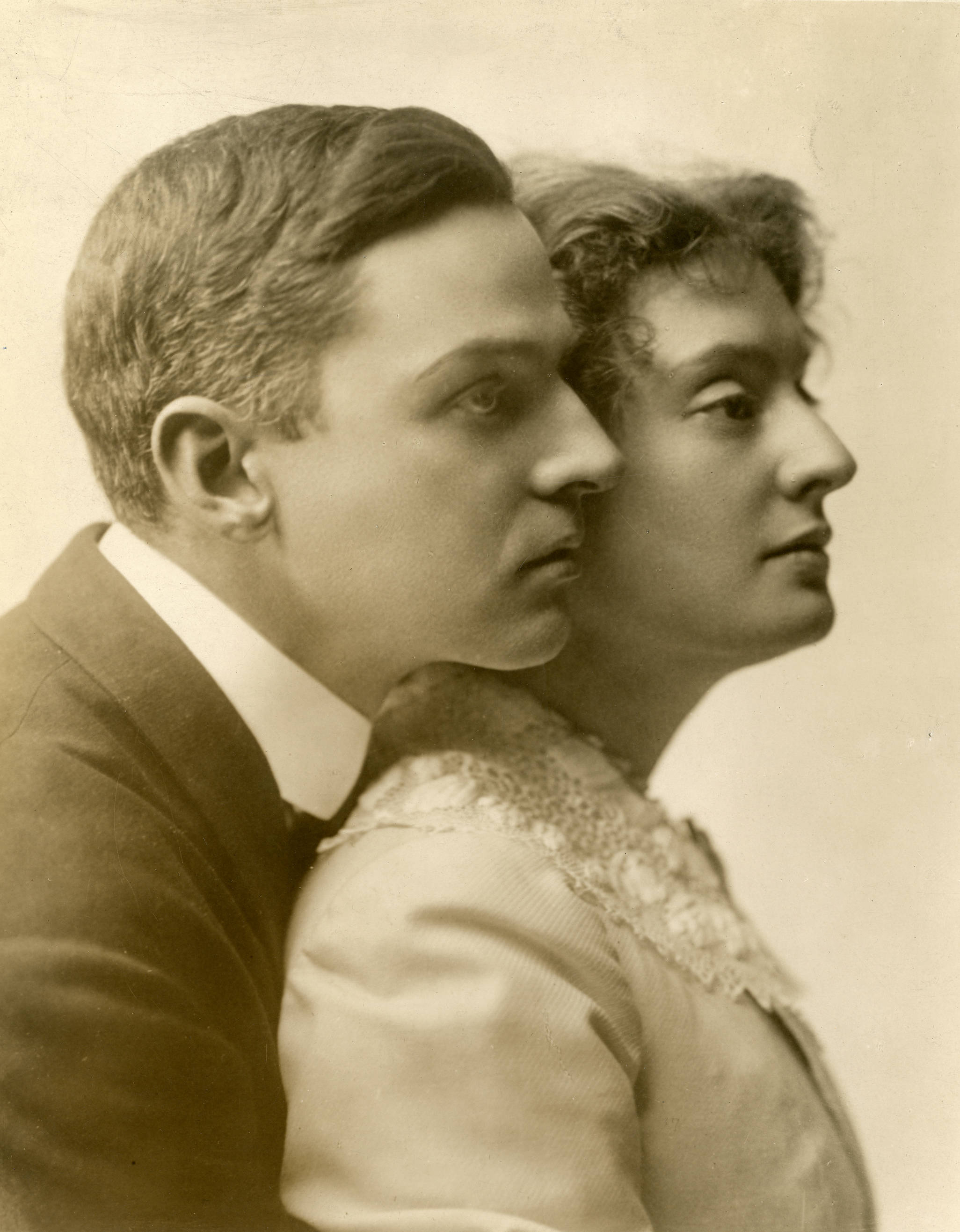 Portrait of Nora Bayes and Jack Norworth, who appeared in the play "Little Miss Fix It." Dated Nov. 1911. Subjects: plays, actresses, actors